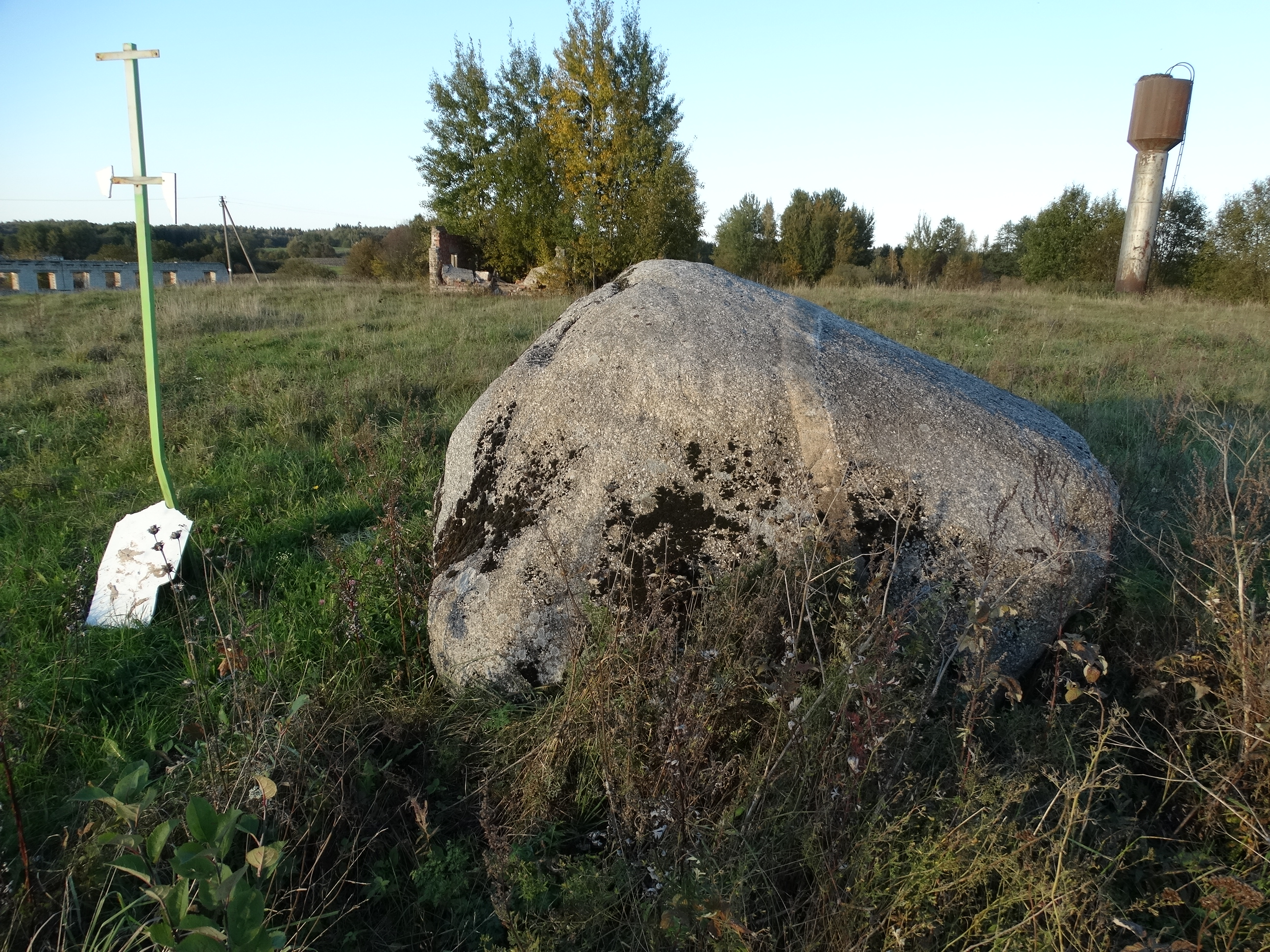 Stone in Žydiškės, Kaišiadorys district, Lithuania